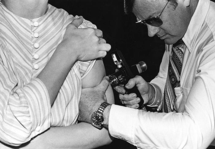 This 1976 photograph showed an adult receiving a vaccination with a jet injector during the swine flu nationwide vaccination campaign, which began October 1, 1976. This rare influenza strain, “A/New Jersey/76 (Hsw1N1) influenza virus” (swine flu), against which this individual was being vaccinated, was reported among soldiers at Fort Dix, New Jersey, where one patient died. A very similar strain killed 500,000 people in the United States, and more than 20 million worldwide, during the pandemic of 1918-1919. In response to the 1976 outbreak, in order to prevent another epidemic, 50 million Americans were vaccinated during a 10 week period, setting an immunization world record.